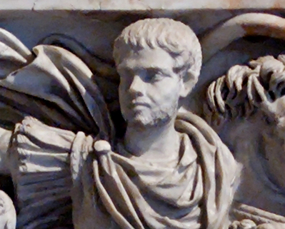 So-called “Grande Ludovisi” sarcophagus, with battle scene between Roman soldiers and Germans. The main character is probably Hostilian, Emperor Decius' son (d. 251 CE). Proconnesus marble, Roman artwork, ca. 251/252 CE.